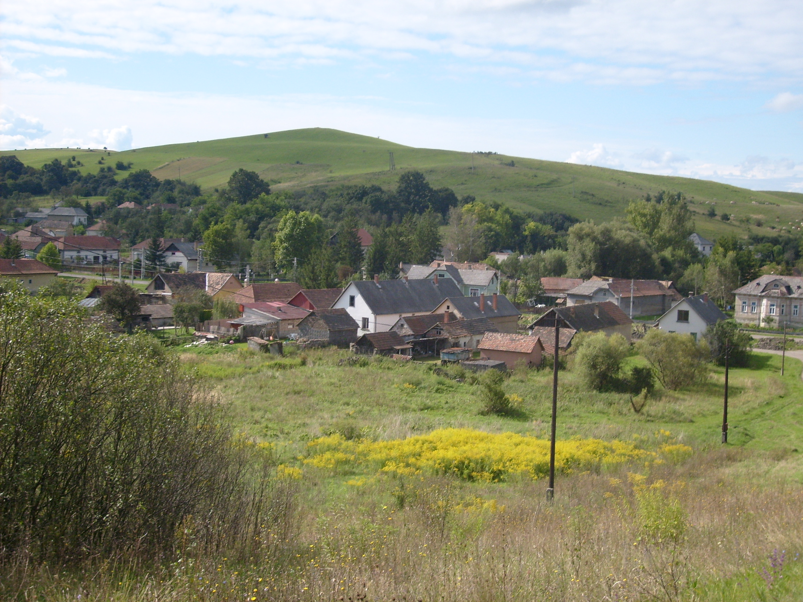 Uraj